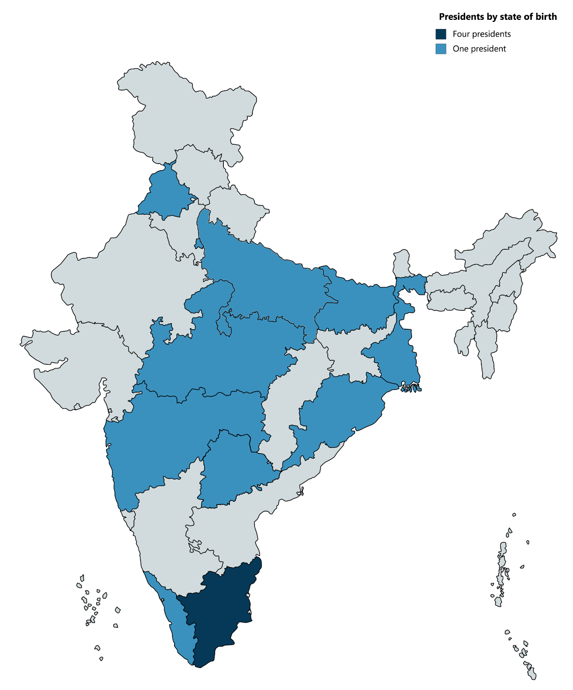 Presidents by state of birth (as of April 2017)